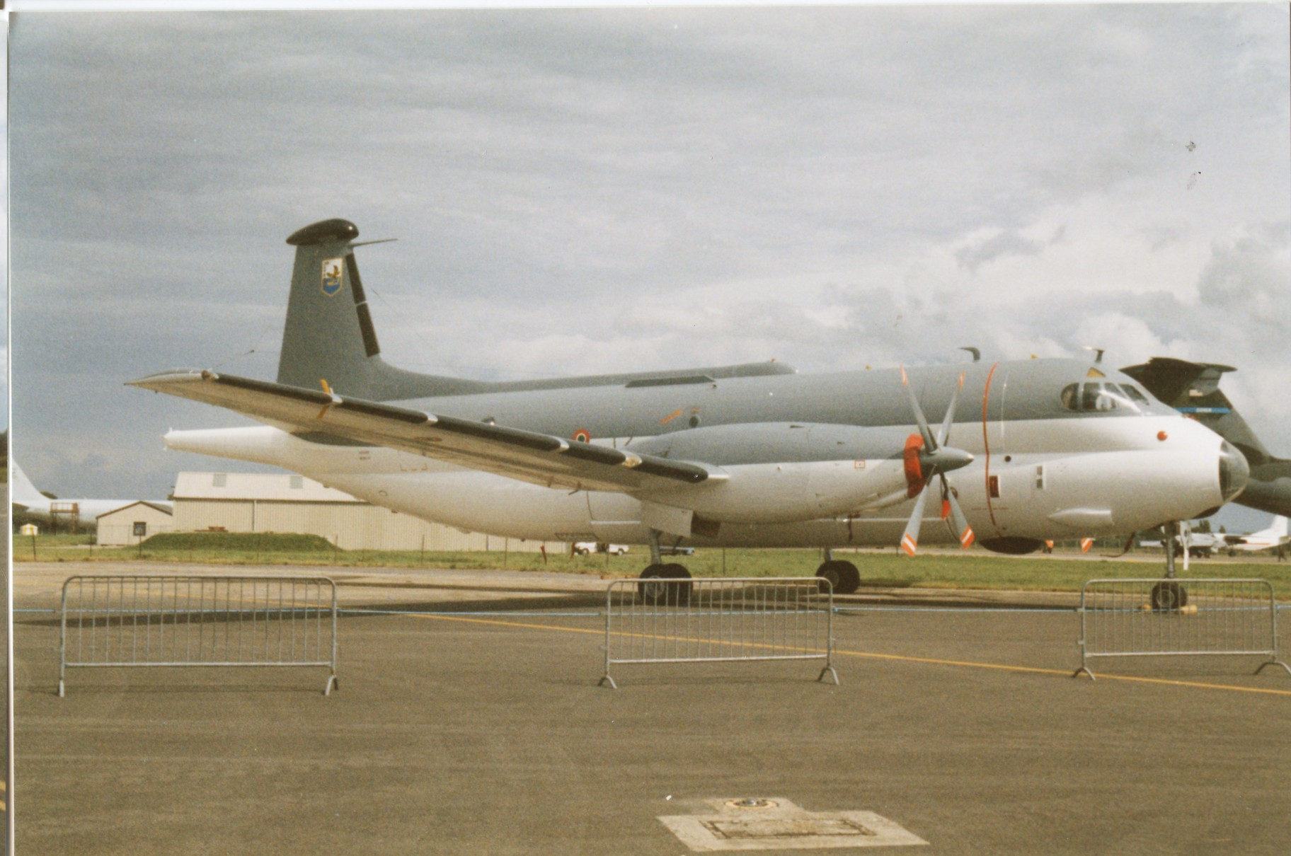 RIAT Fairford 1993, Italian Breguet Atlantic